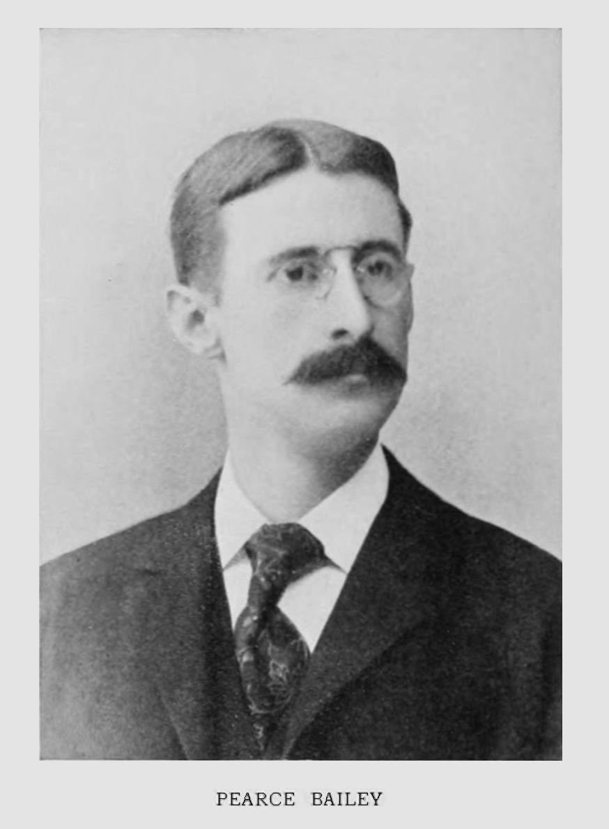 Pearce Bailey (1865-1922)